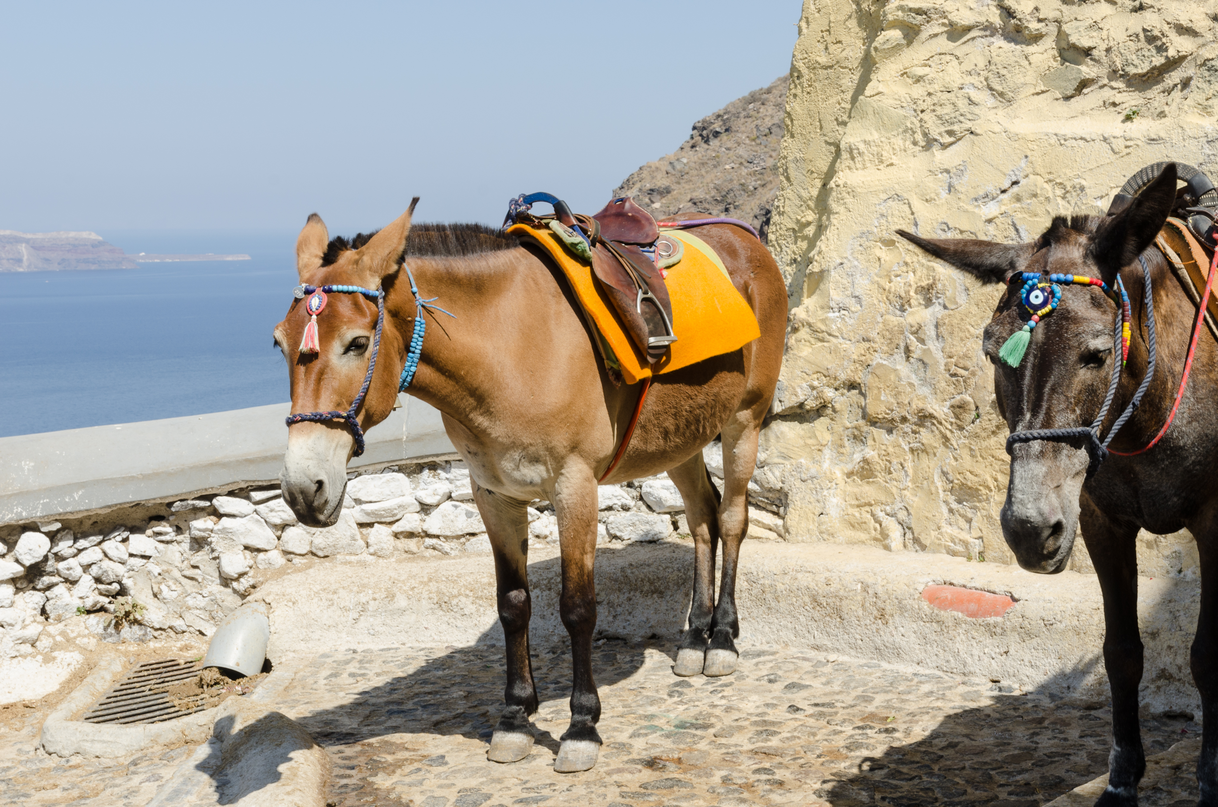 Donkey trail between Fira and Skala port, Santorini, Greece.